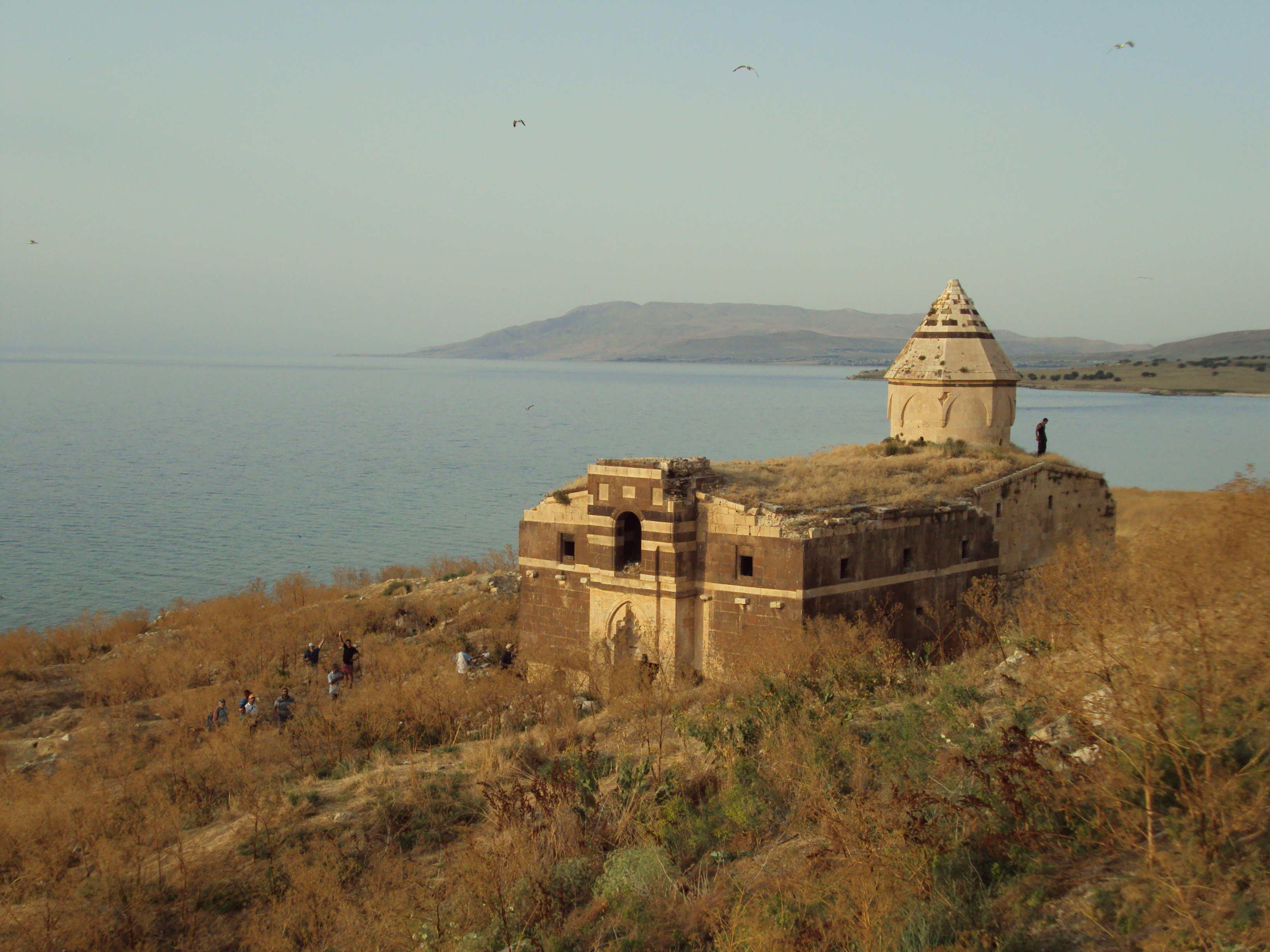 15th century Armenian monastery on the small island of Ktuts (Çarpanak) in Lake Van, Vaspurakan (present-day Turkey)